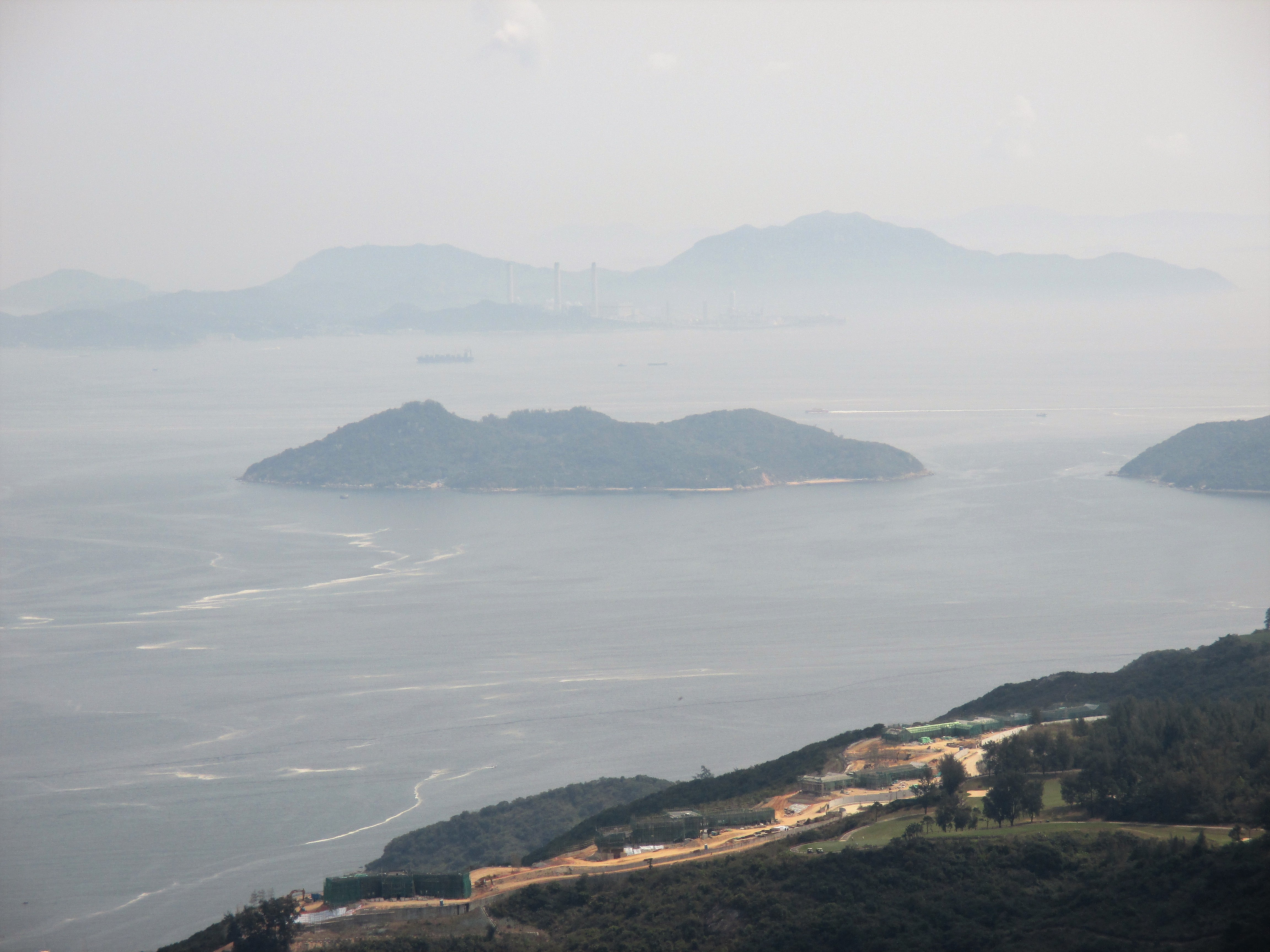 Discovery Bay Golf Course